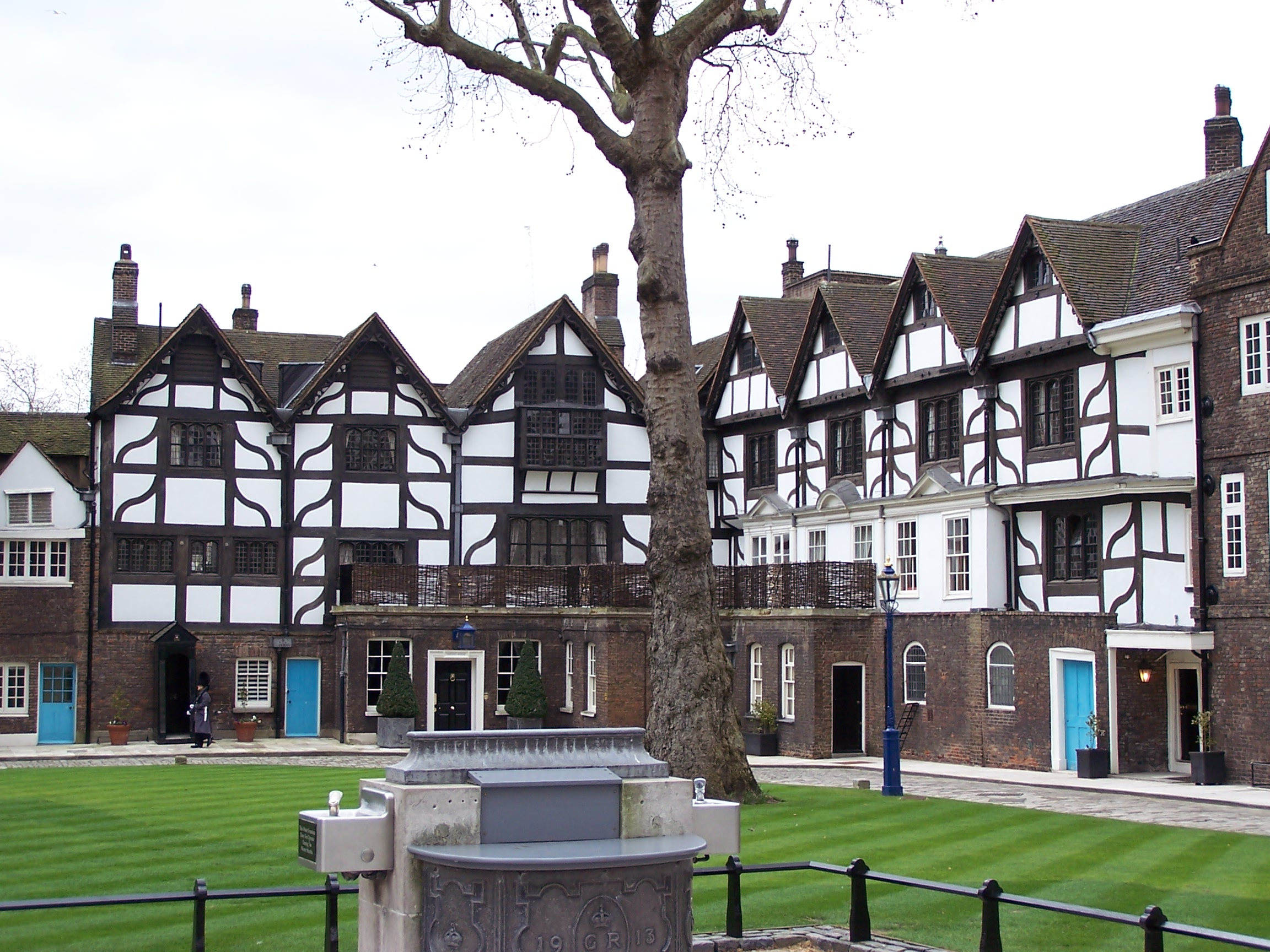 Queen's House in the Tower of London